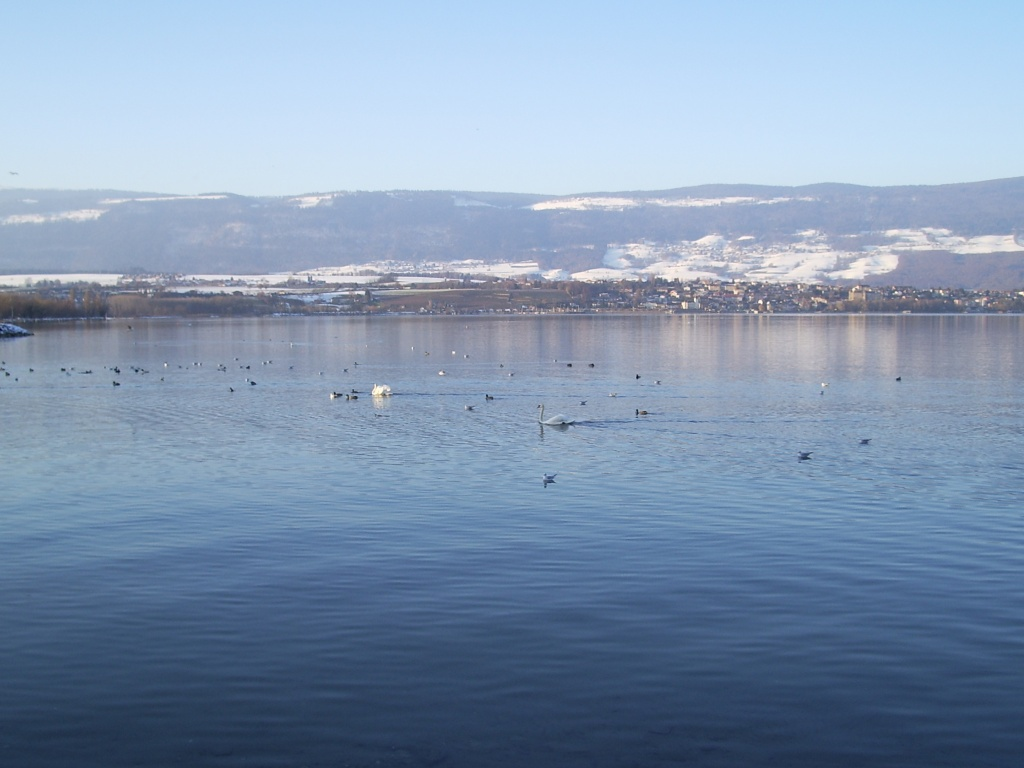 Image of Neuenburgersee lake (lac Neuchâtel in French) from Yverdon-les-Bains. Grandson village can be seen on the other side of the lake.